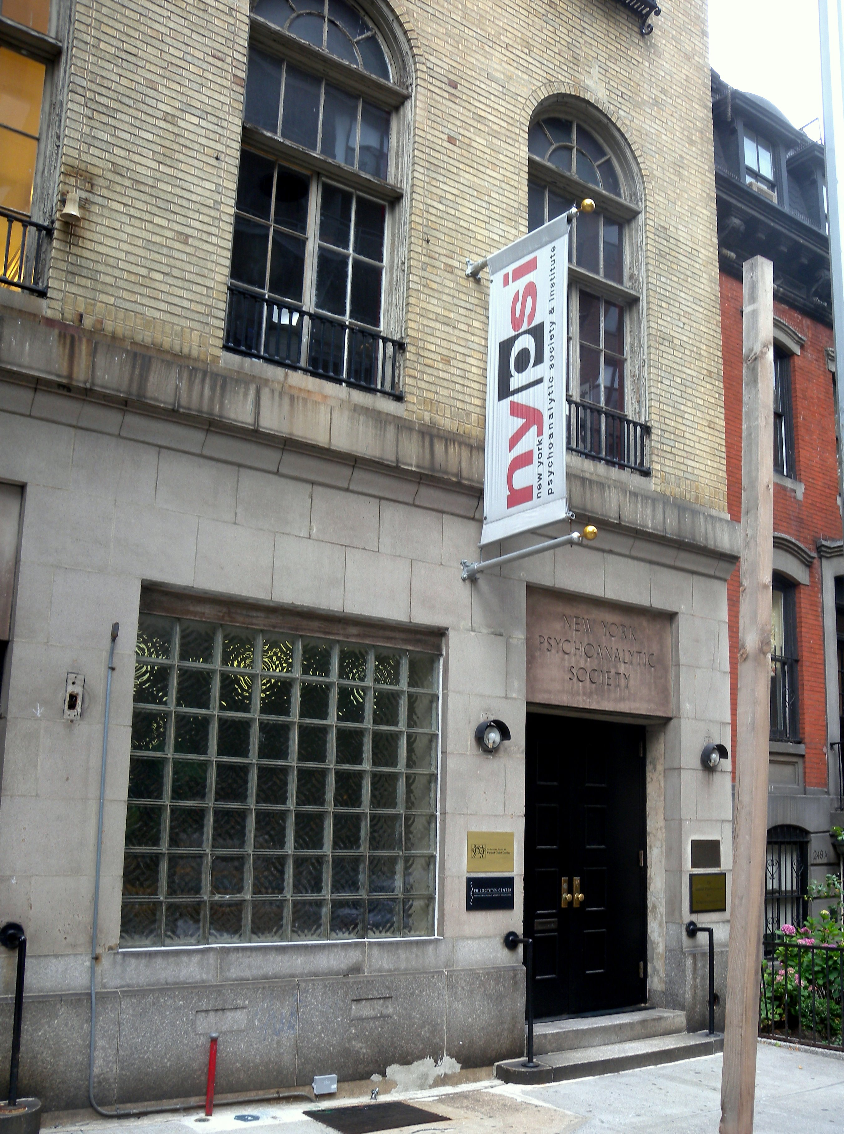 Looking northeast across 82nd St at New York Psychoanalytic Society on a mostly cloudy afternoon.